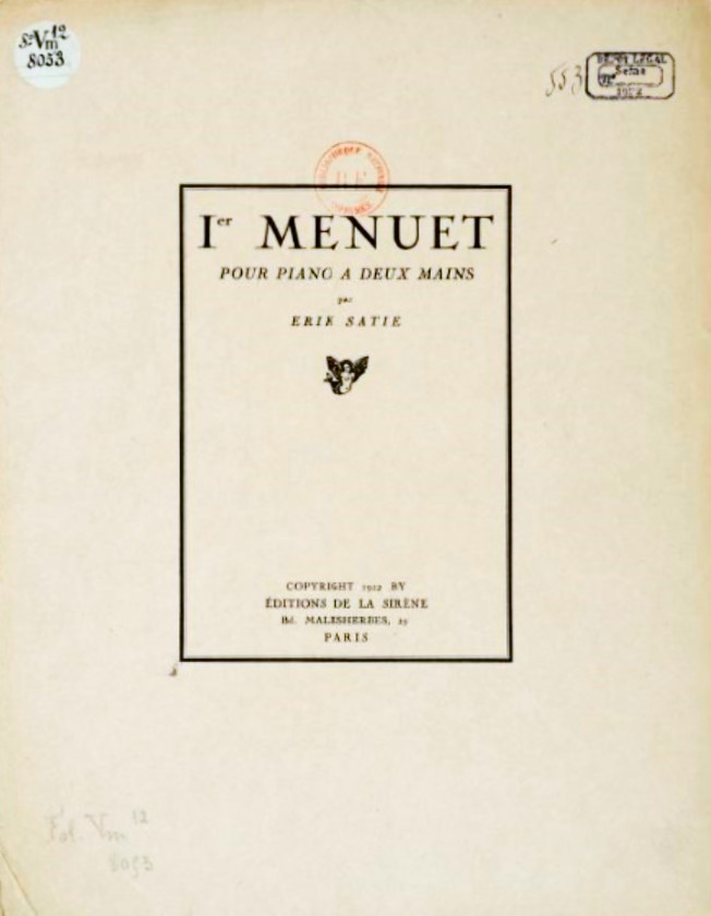 Cropped, adjusted version of PD image available from the BNF